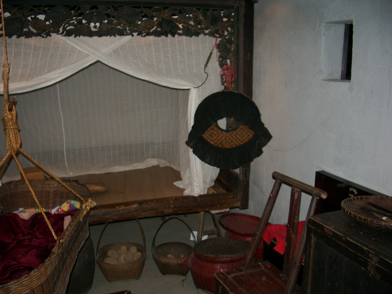 Hong Kong Museum of History. A typical residence for the Punti ("land dwellers") people.